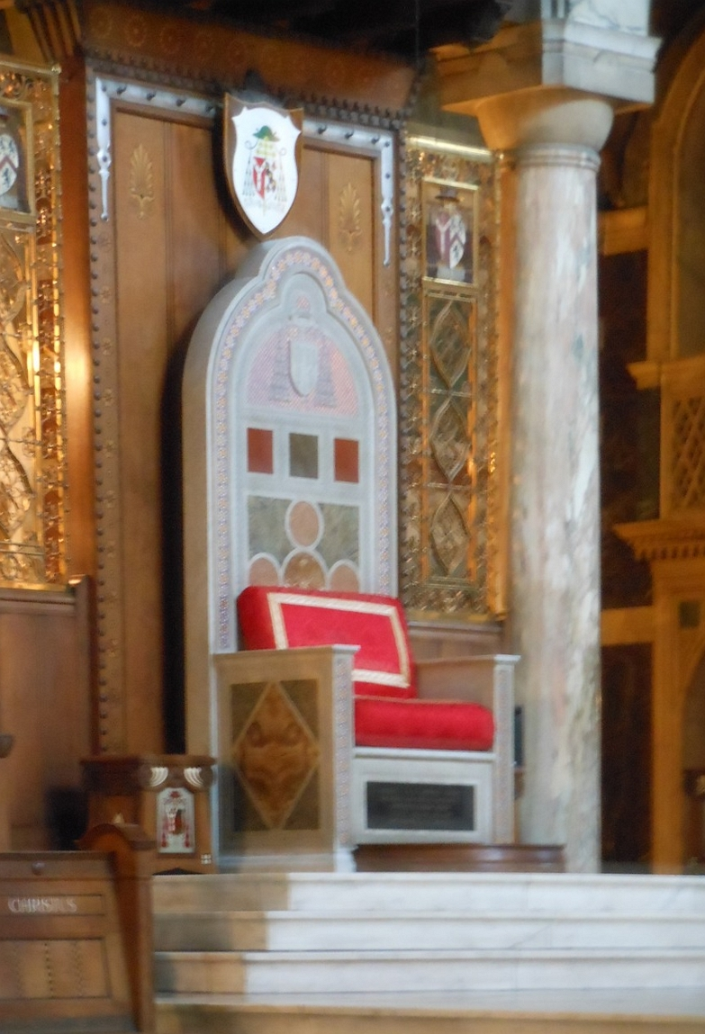 Westminster Cathedral, Cathedra of the Archbishop, designed after the Papal Cathedra in the Lateran Basilica